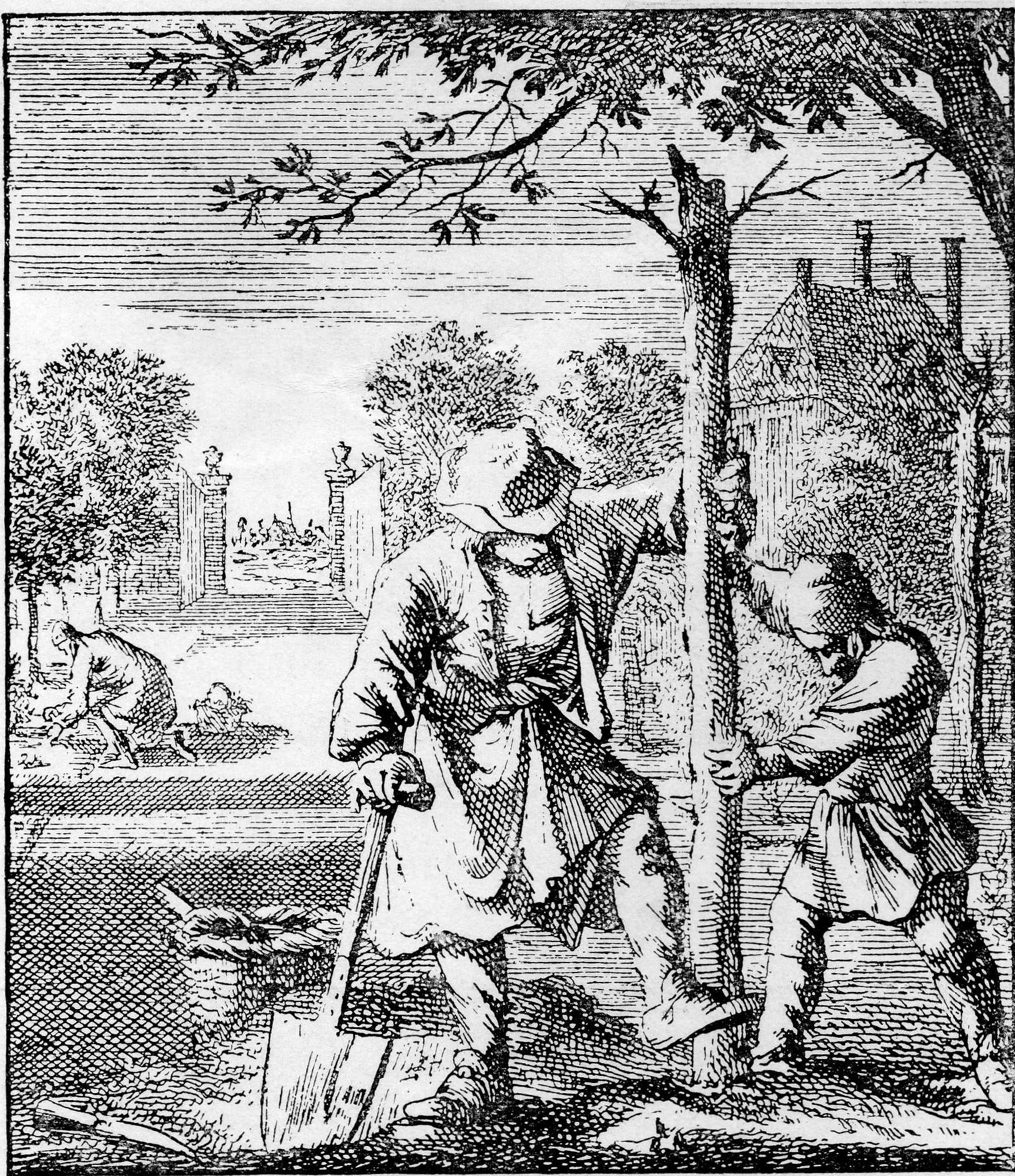 The Gardener